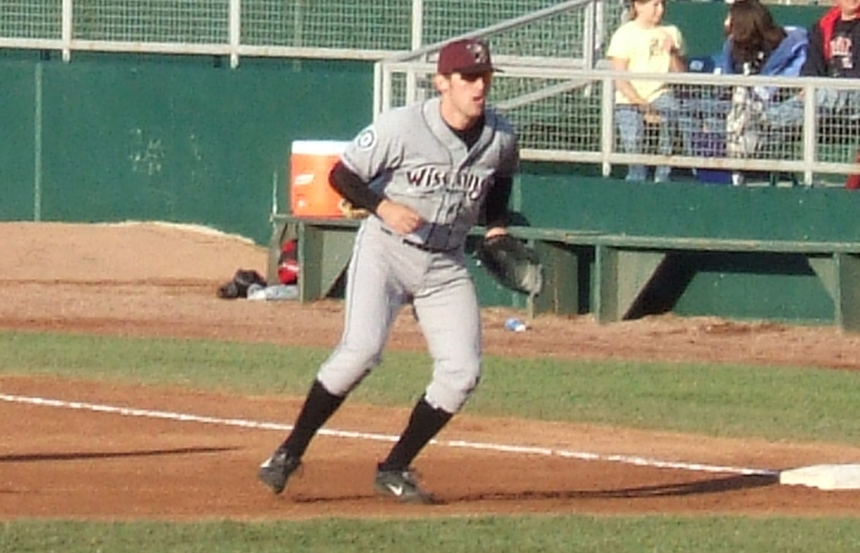 Thomas Hubbard covering first base.